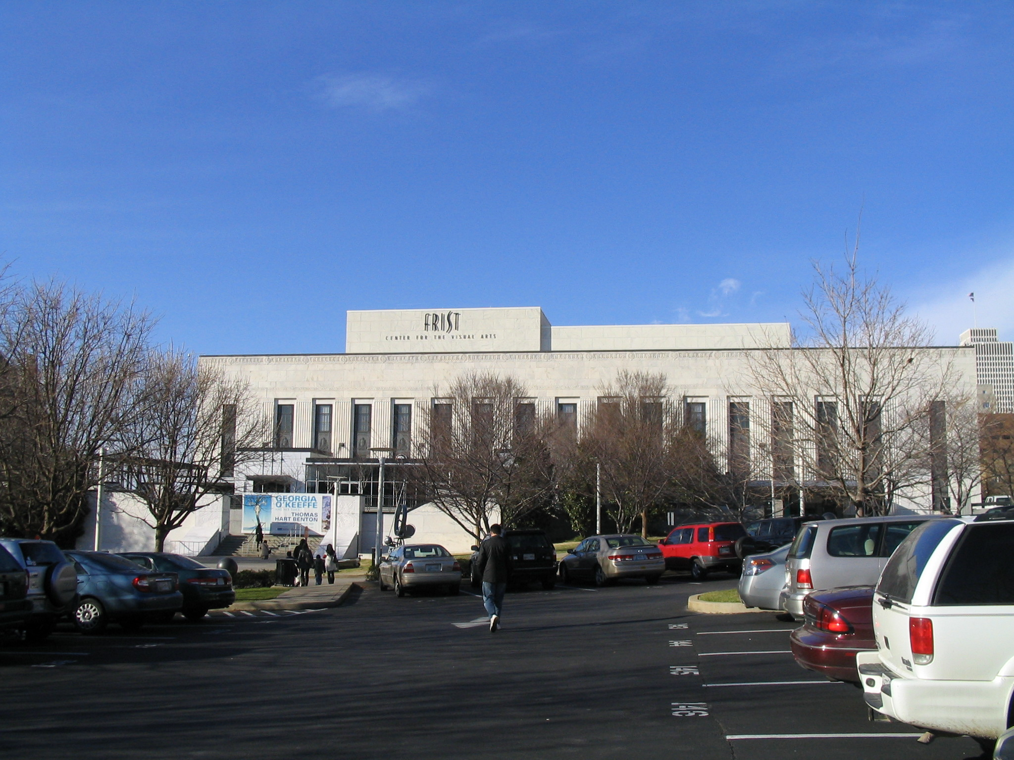 Frist Center for the Visual Arts (Nashville, Tennessee, USA)